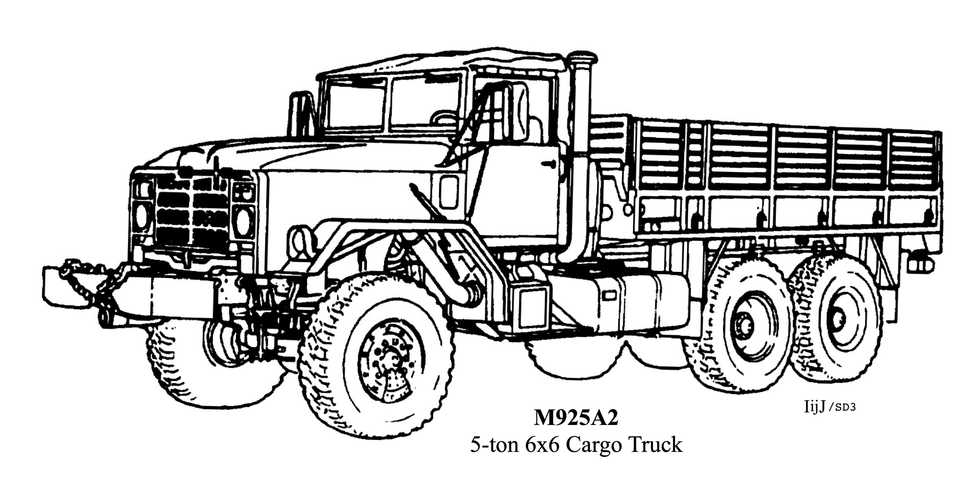 M925A2 "Truck, Cargo, 5-ton, 6x6, Dropside" drawing from a US Army Technical Manual, labeled and cropped for size